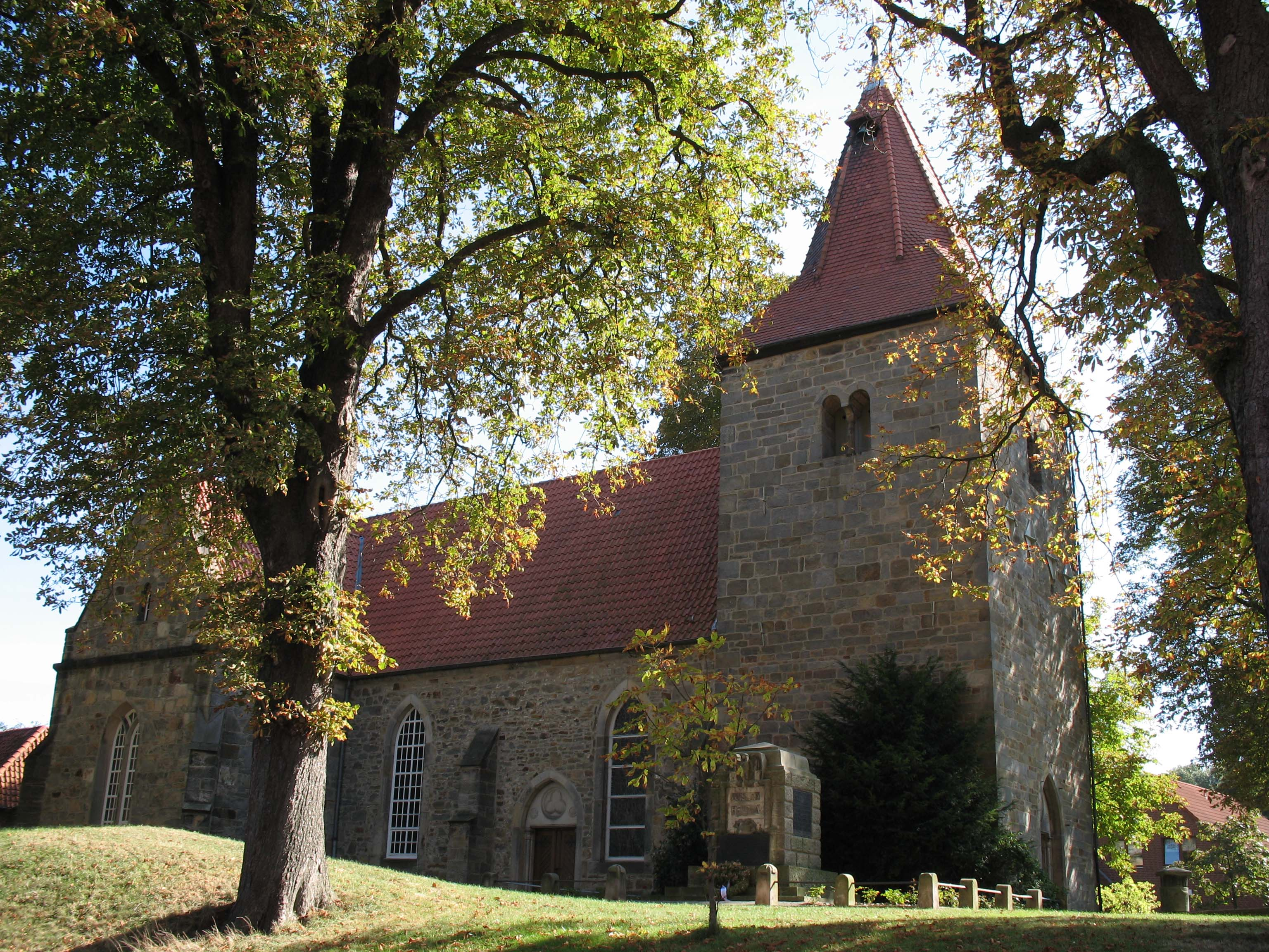 Church in Holtensen, Lower Saxony, Germany